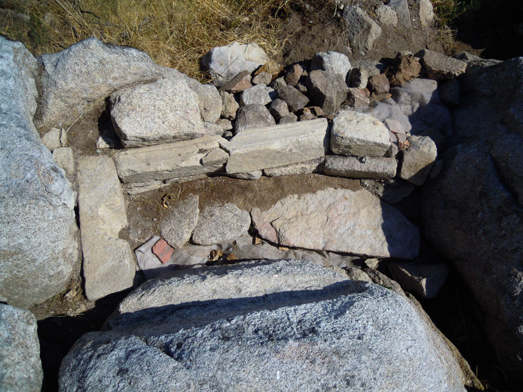 Reconstruction from a tomb in the San Victor de Barxacova chapel (Parada de Sil, Galicia, Spain) in excavation process.